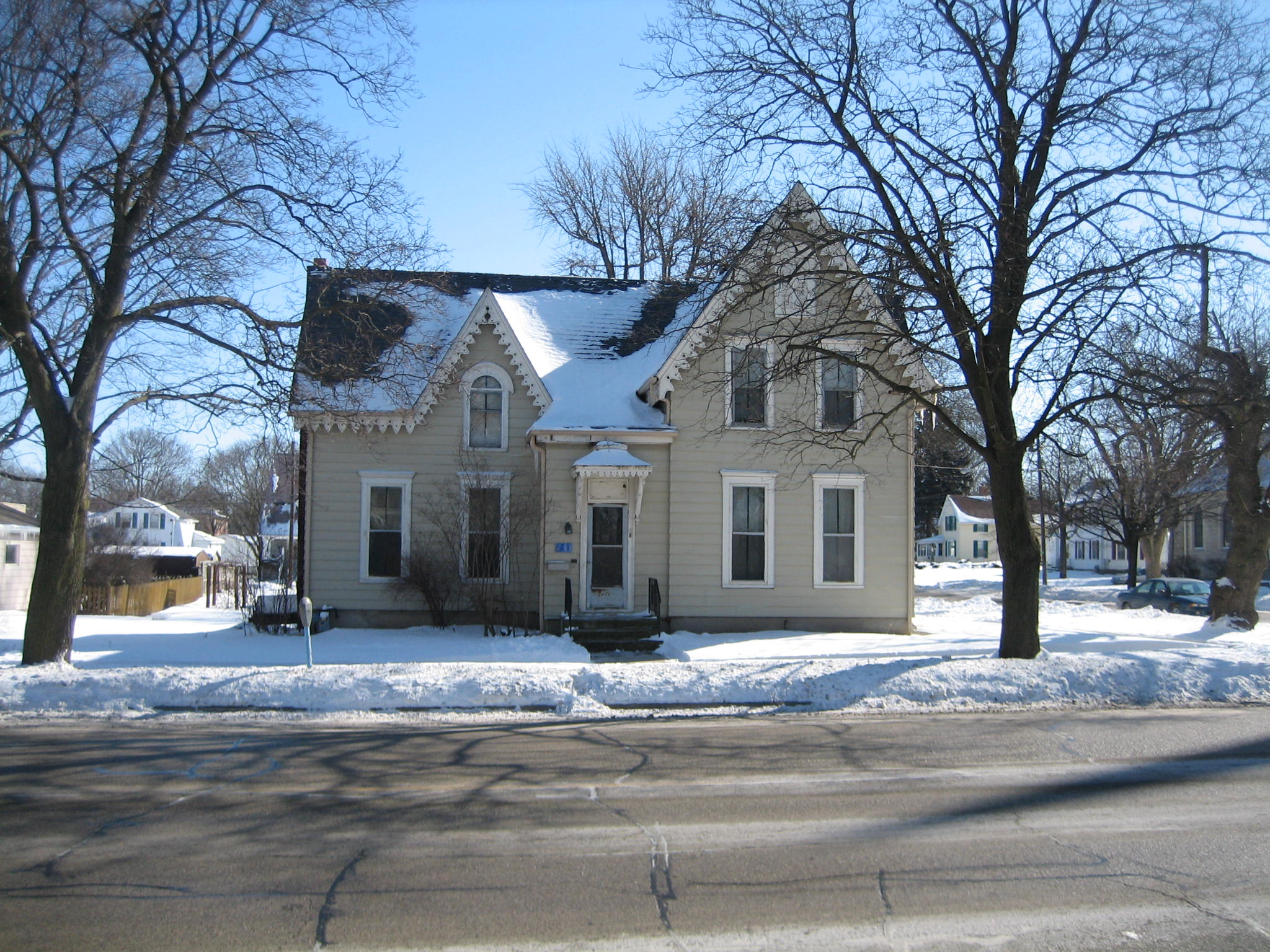 230 S. Somonauk St. Captain R.A. Smith House, Sycamore, Illinois, Sycamore Historic District. National Register of Historic Places.